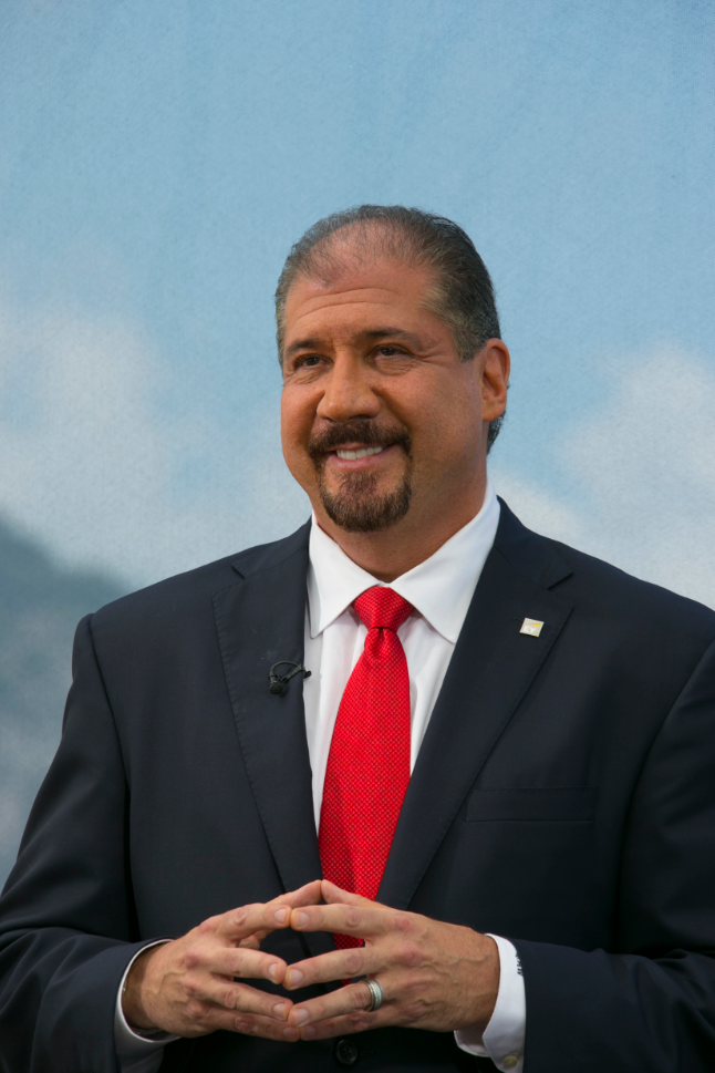 Mark Weinberger at the EY World Entrepreneur of the Year 2016